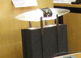 Tlws sculpture used as the ceremonial mace of the National Assembly for Wales between 1999 and 2006